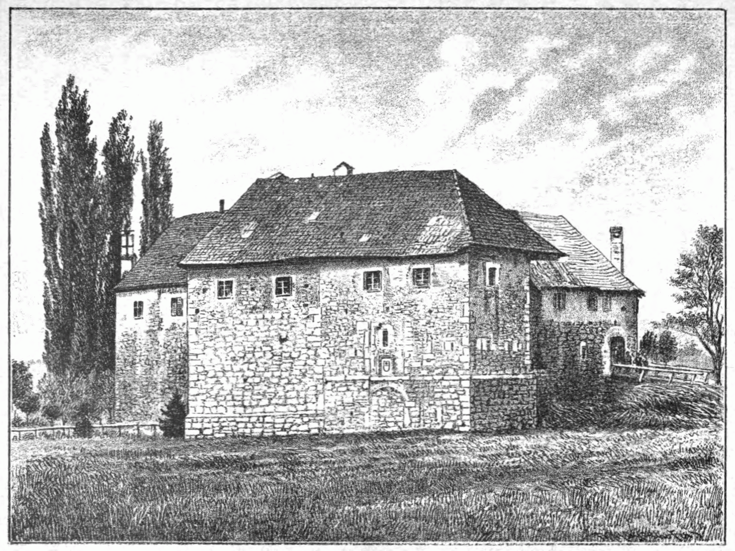 Ribnik (from east)